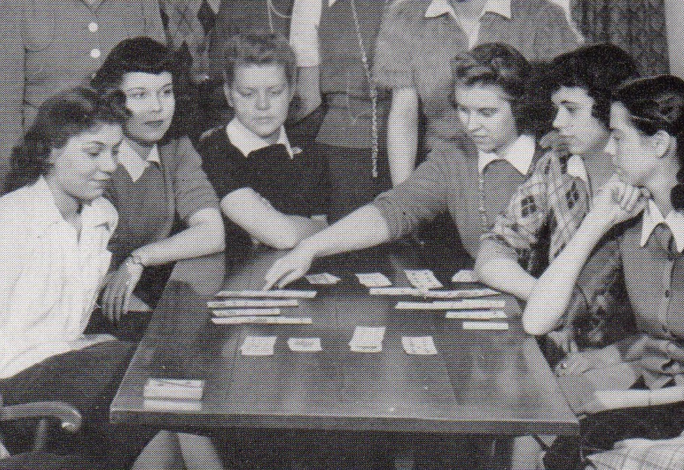 Photograph of a meeting of the bridge club of Frances Shimer College in 1941-1942, from the 1942 Shimer yearbook. Now a liberal arts college in Chicago with a Great Books curriculum, Shimer was then a four-year women's junior college in Mount Carroll, Illinois; consequently, all parts were played by women. Published in the school's 1942 yearbook, which does not contain a copyright notice. Additionally in the public domain due to the terms of dedication of the Shimer College Collection (which includes a copy of this yearbook) to NIU in 1979, which vested literary rights in the collection in the public.